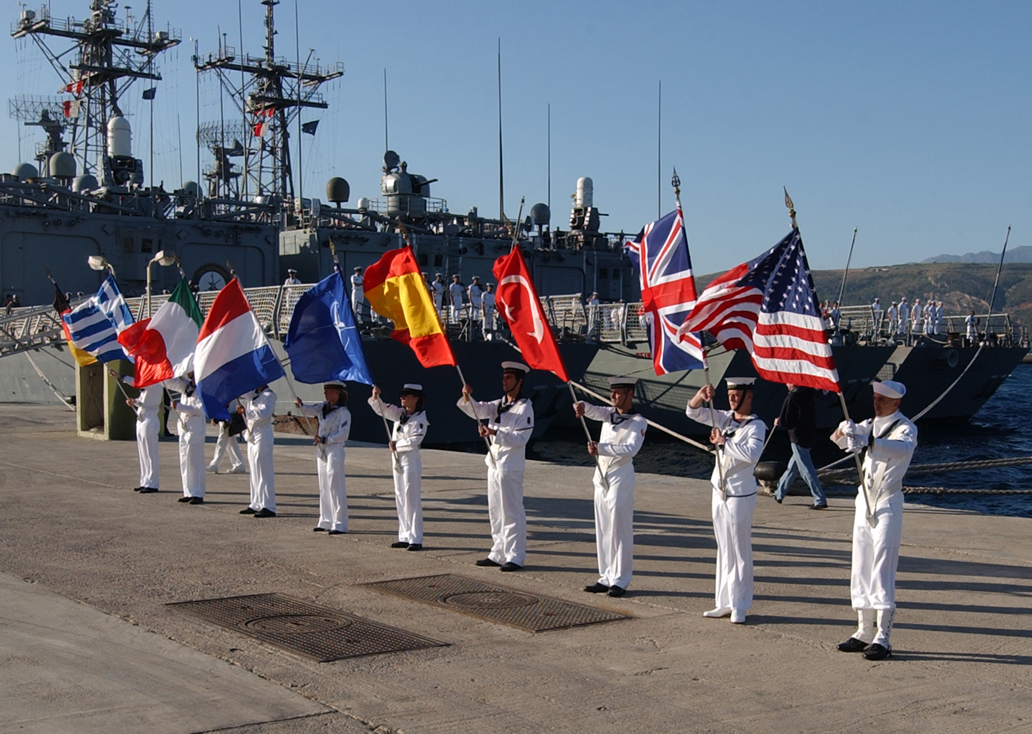 Souda Bay, Crete, Greece (May 20, 2005) – Storekeeper First Class Lonnie Campton, assigned to USS Taylor (FFG 50), serves as color guard for the American flag during the opening ceremony of the North Atlantic Council (NAC) and the Military Committee (MC) SEA DAY Exercise. The exercise involved vessels from Greece, Turkey, Spain, Germany, United Kingdom, and the United States all currently assigned to Standing NATO Response Force Maritime Group Two (SNMG2). The event was held to provide an indication of the capabilities of these permanent naval assets that recently have been integrated into the NATO Response Force (NRF) and that form the core of the antiterrorist operation “Active Endeavor.” U.S. Navy photo by Paul Farley (RELEASED)